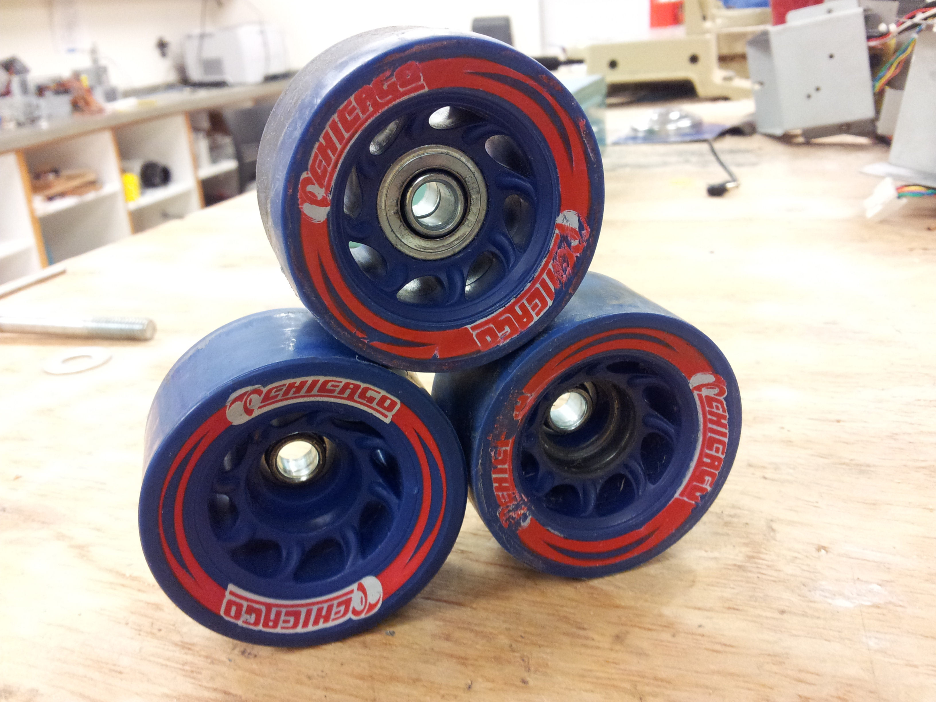 Skateboard wheels and the ball bearings within them